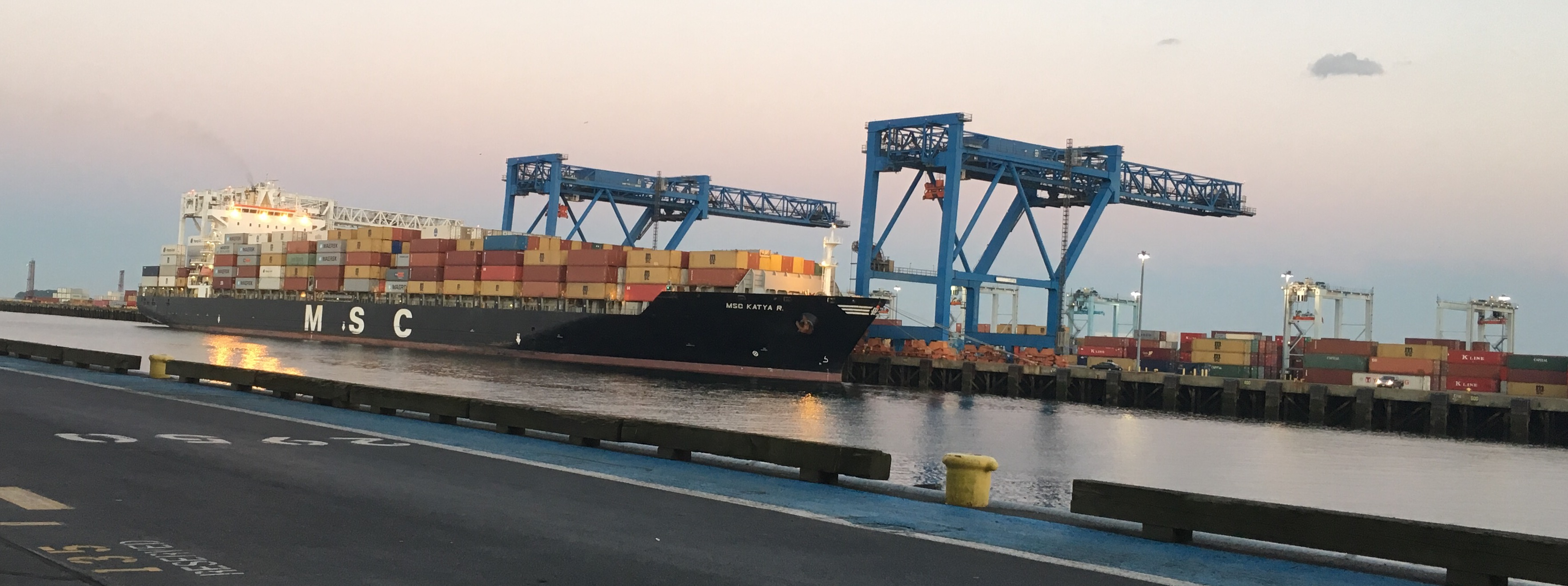 Container ship MSC Katya R. docked at Conely Terminal in Boston Harbor.